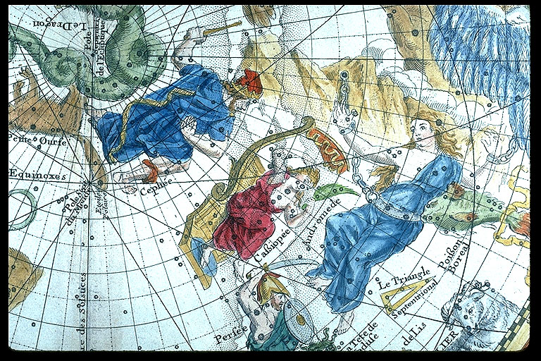 Andromeda and Cassiopeia - detail from Planisphere celeste, Philippe La Hire, 1705.